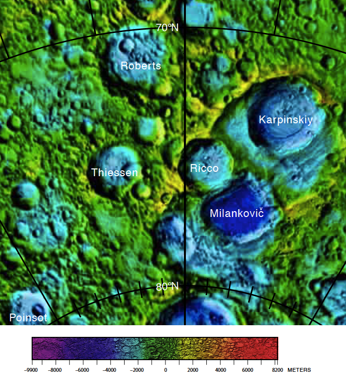 Part of the USGS north pole area lunar chart